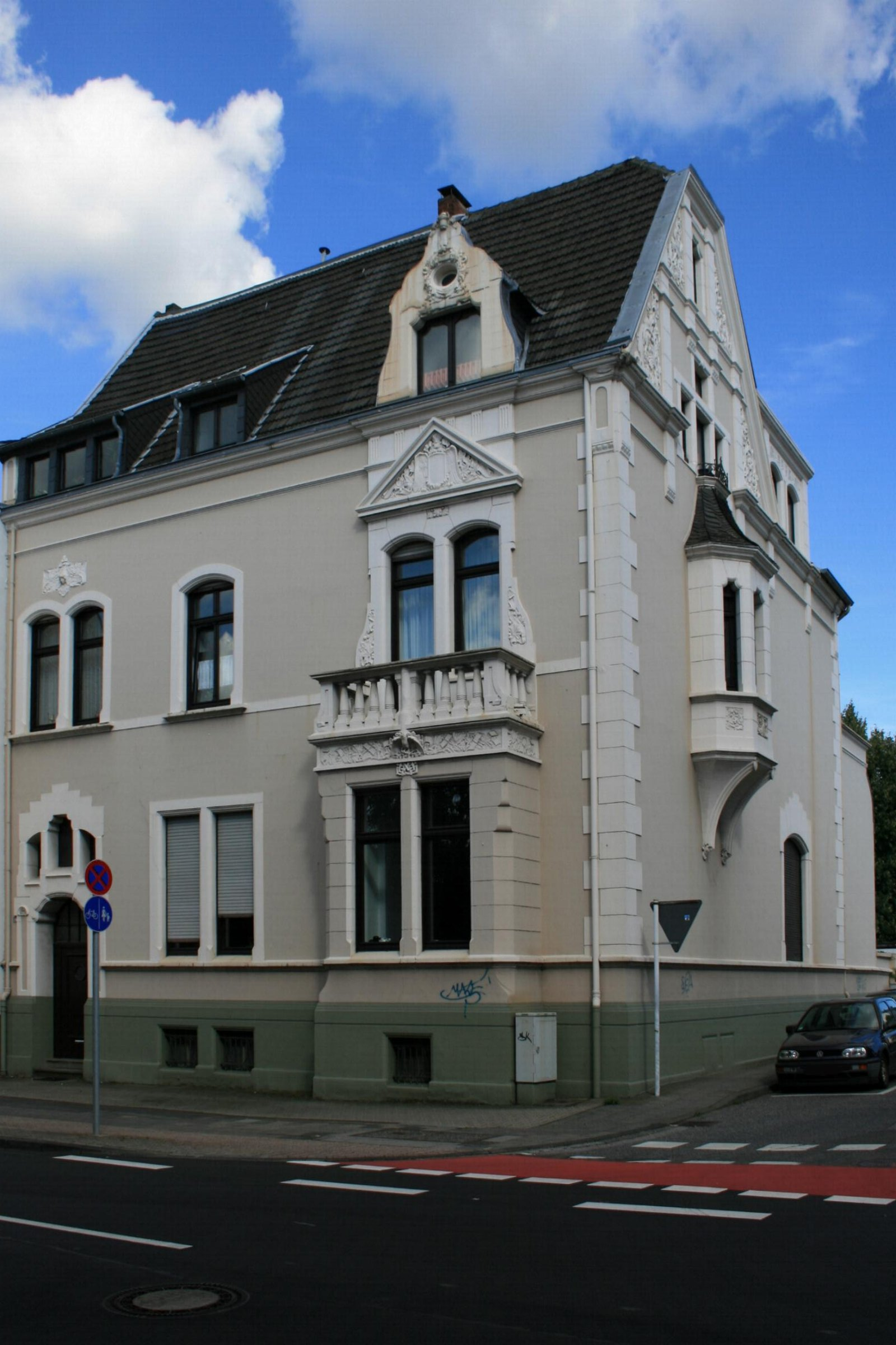 Cultural heritage monument No. W 024 in Mönchengladbach